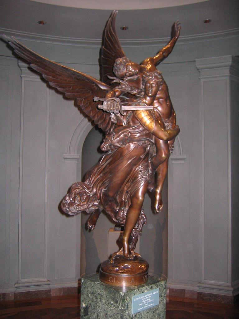 This photo of Gloria Victis was taken by myself at the National Gallery of Art in Washington, DC, US. I have replaced a previous image that I felt was lacking and washed out.